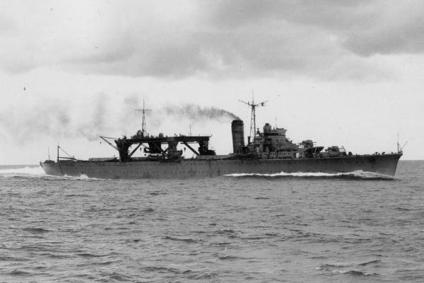 Japanese seaplane tender "Chiyoda", off Sata-misaki on full speed trial.